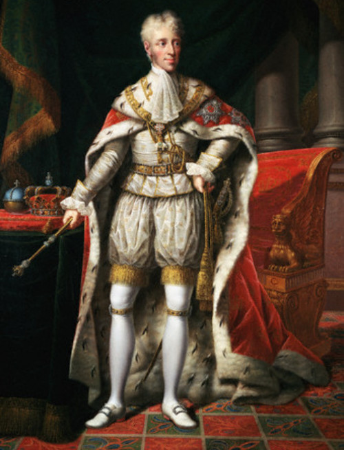 Frederick the Sixth of Denmark and Norway in coronation robes